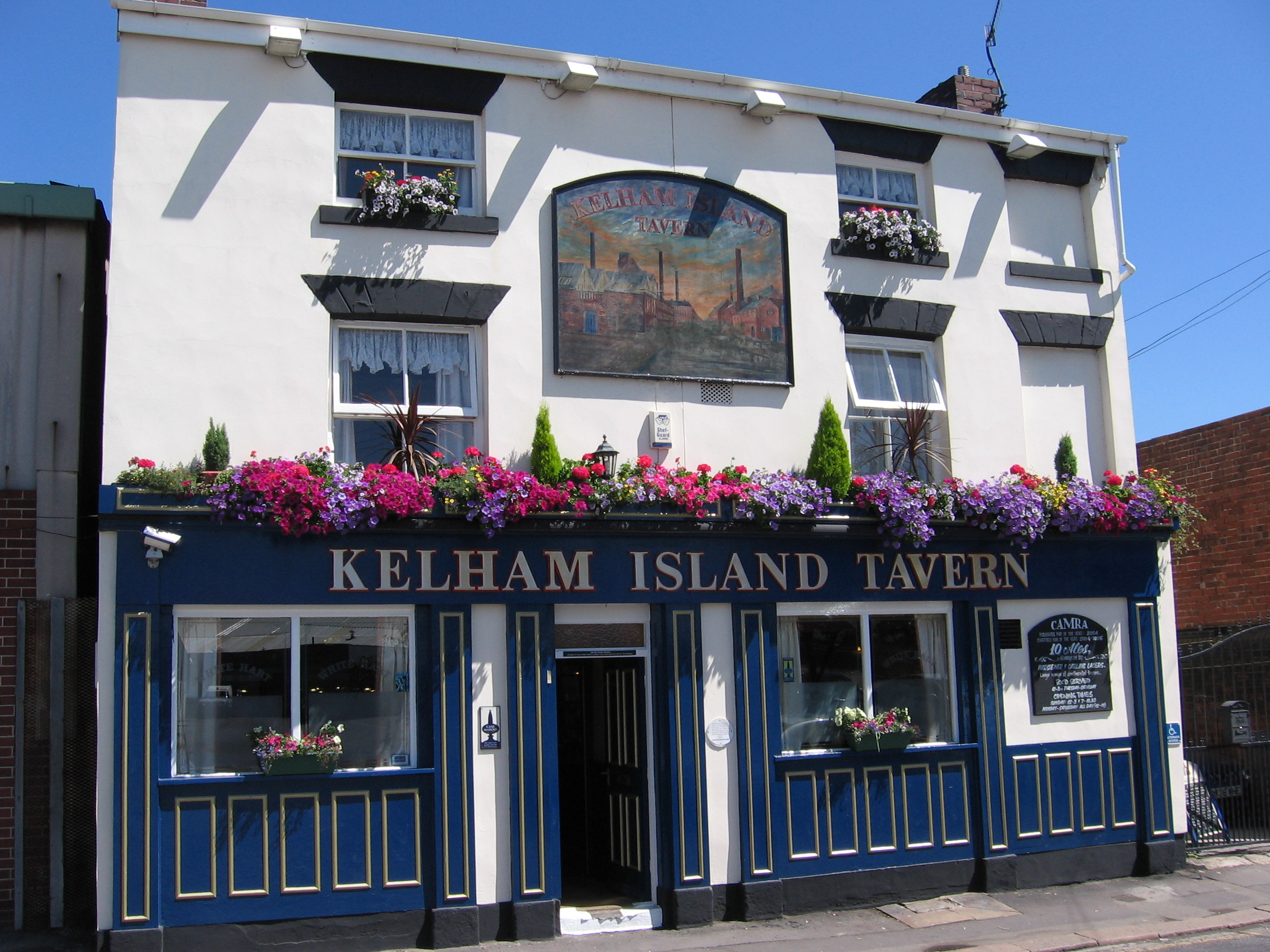 Kelham Island Tavern, Sheffield